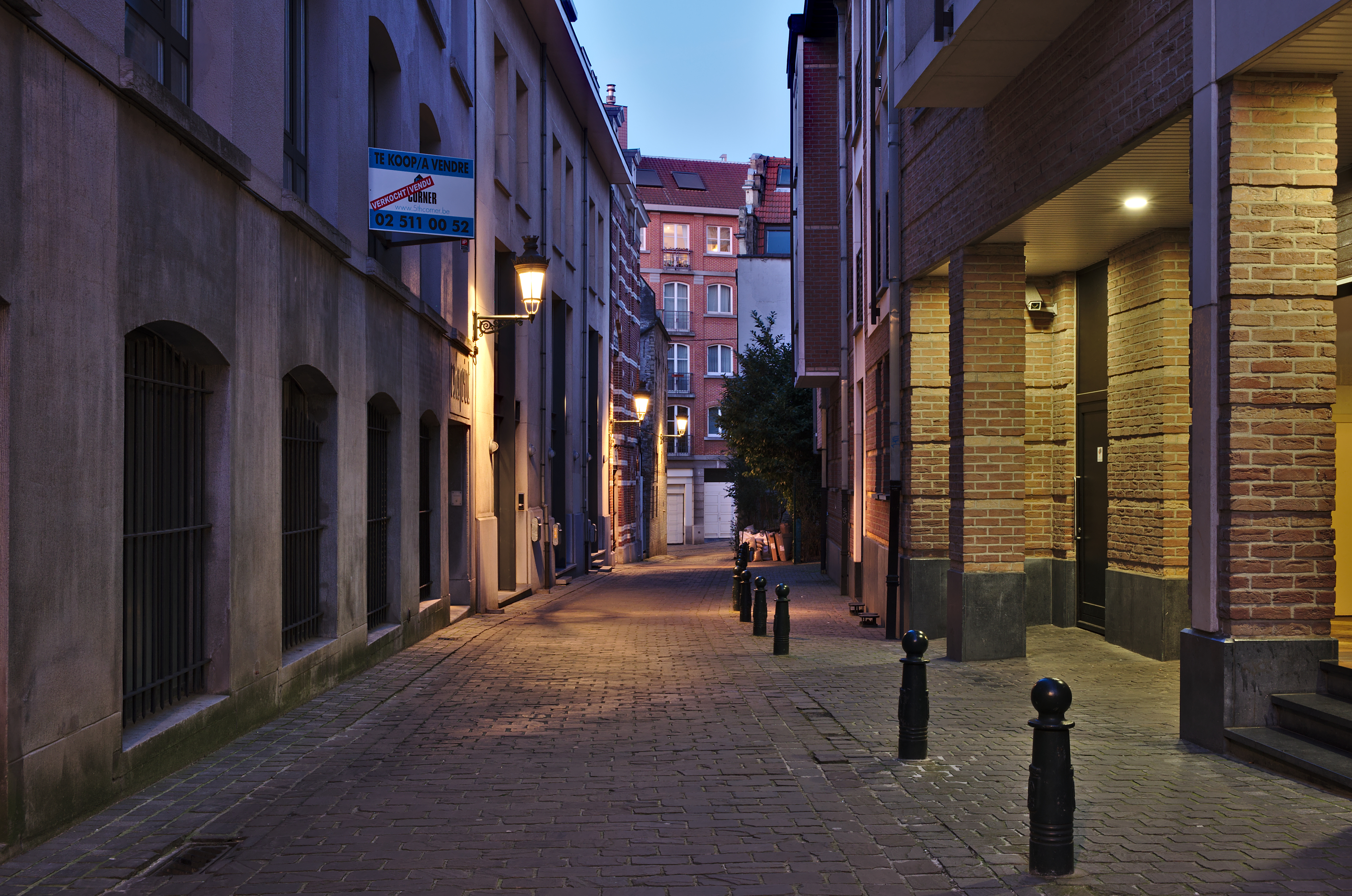 Rue de Villers during the evening civil twilight in Brussels, Belgium